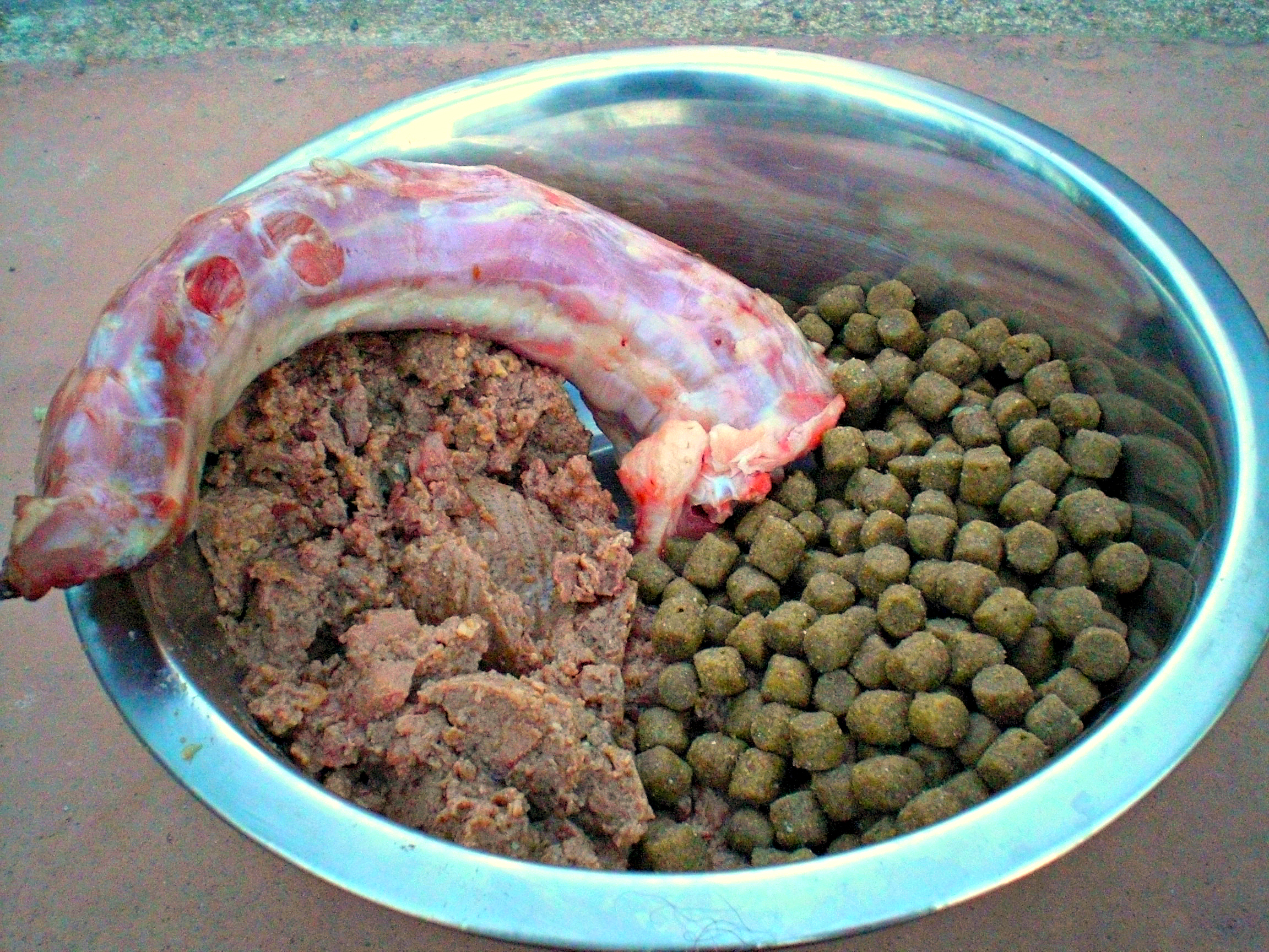 This picture shows moist, dry and raw dog food